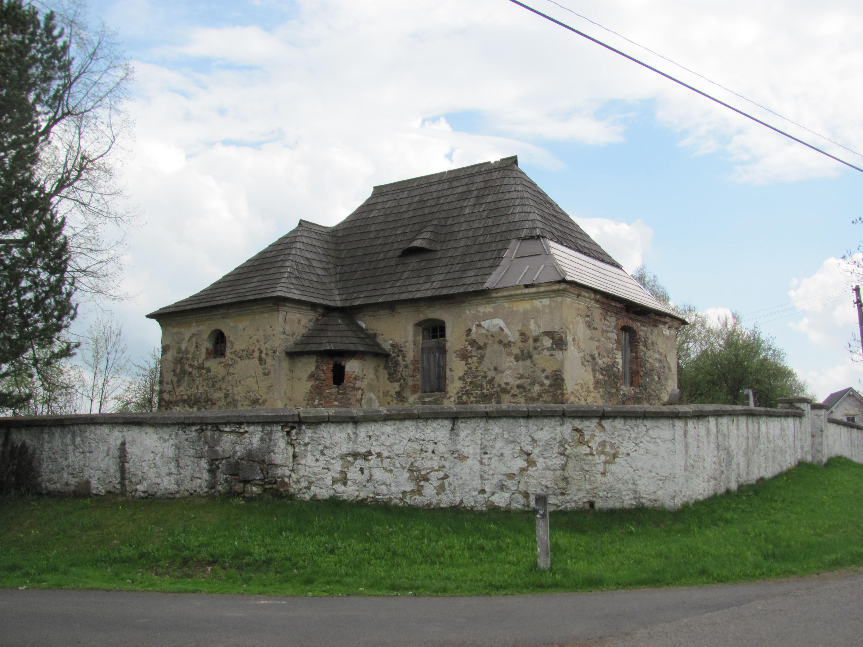 Saint Bartholomew church in Přílezy